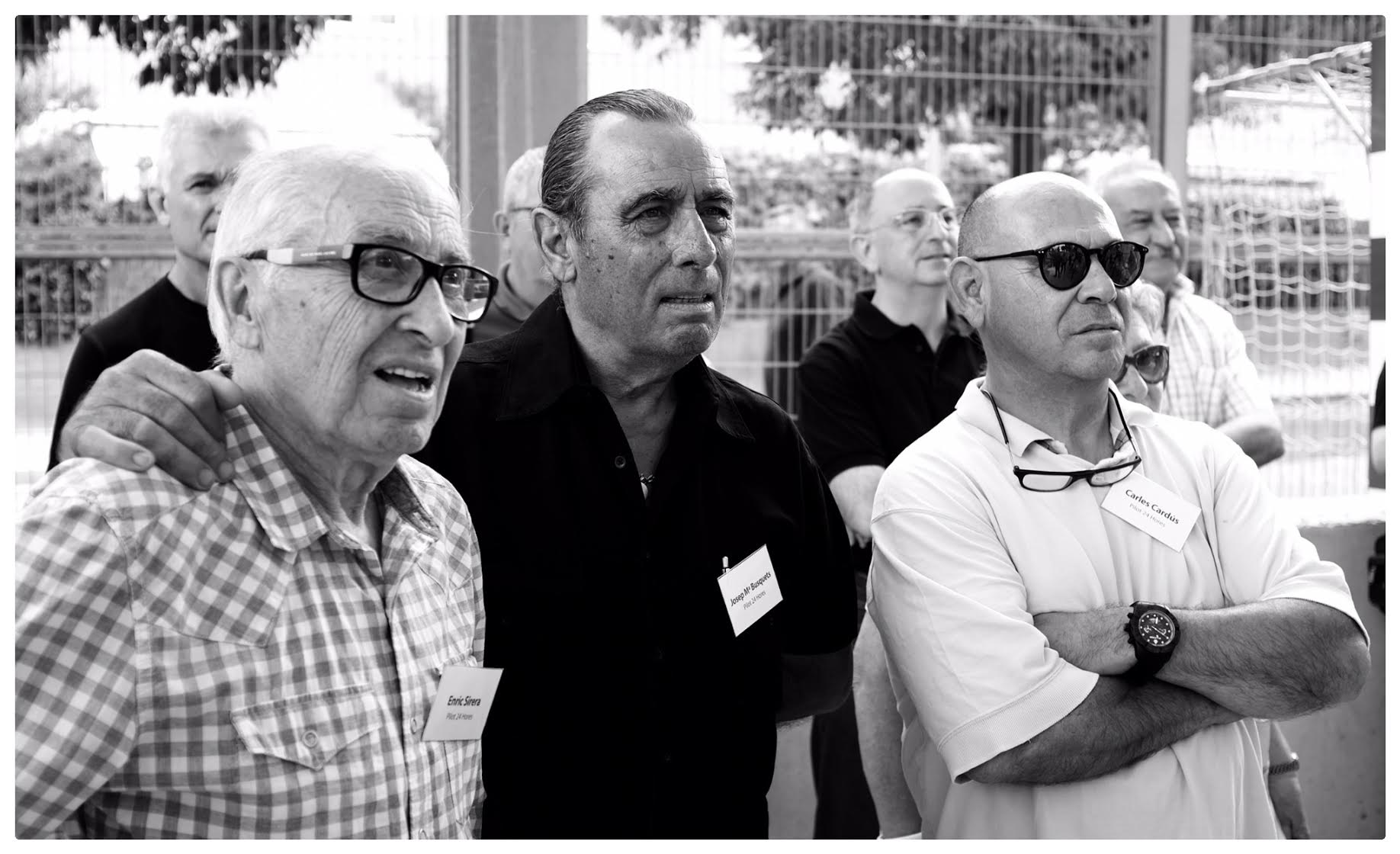 From left to right: Enric Sirera, Josep Maria Busquets and Carles Cardús, during the II Llotja del Vehicle Clàssic de Mollet (june 2015)